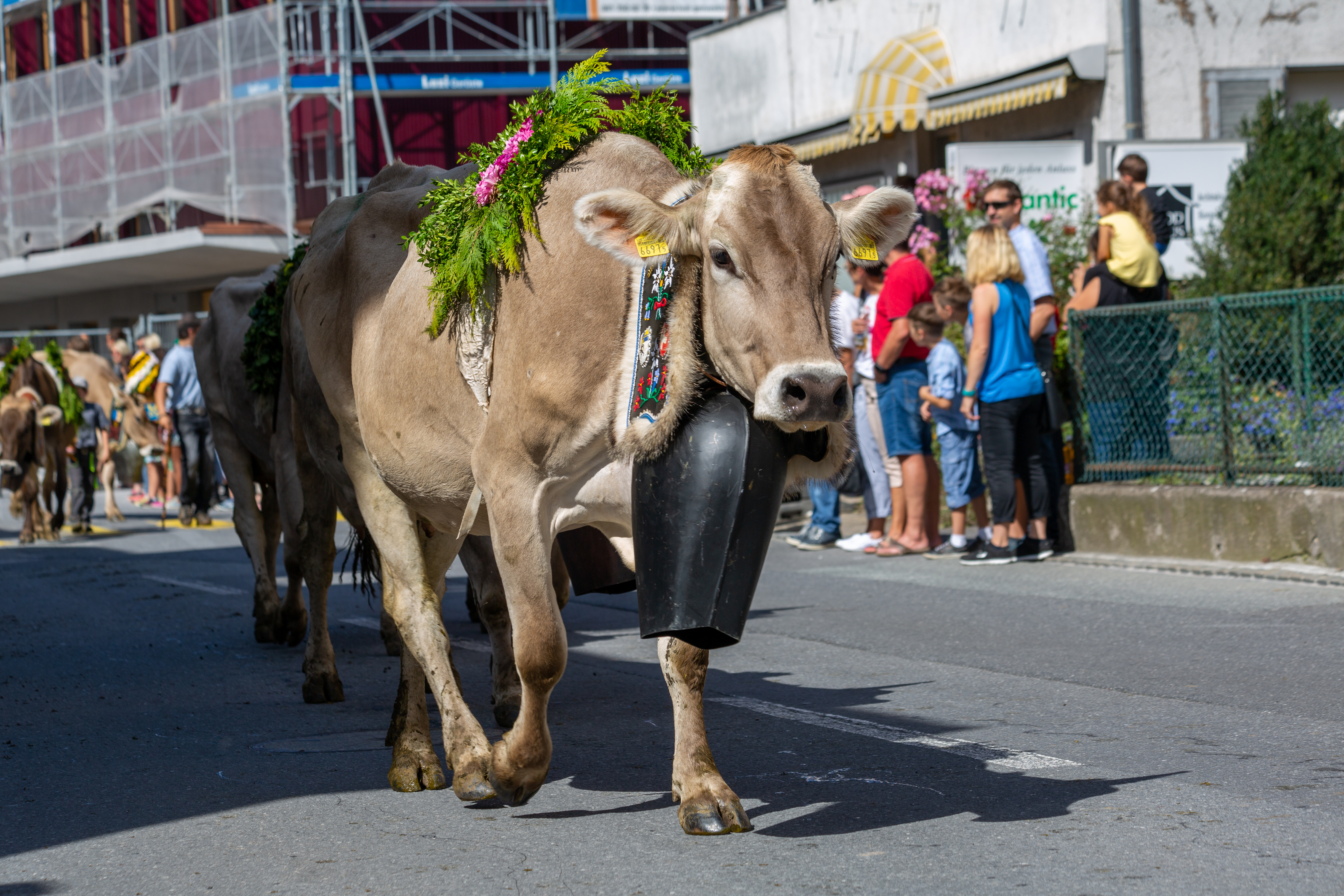 Albabfahrt in Mels, 2019 This photo has been taken in the country: Switzerland